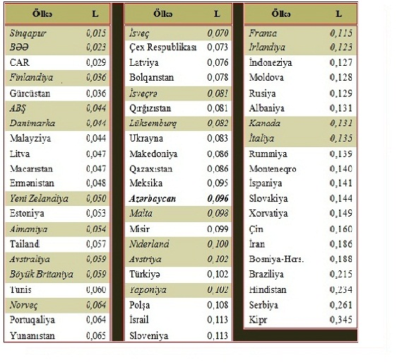 Cədvəl 4. Lisenziyalaşdırma sub-indeksi – 2015